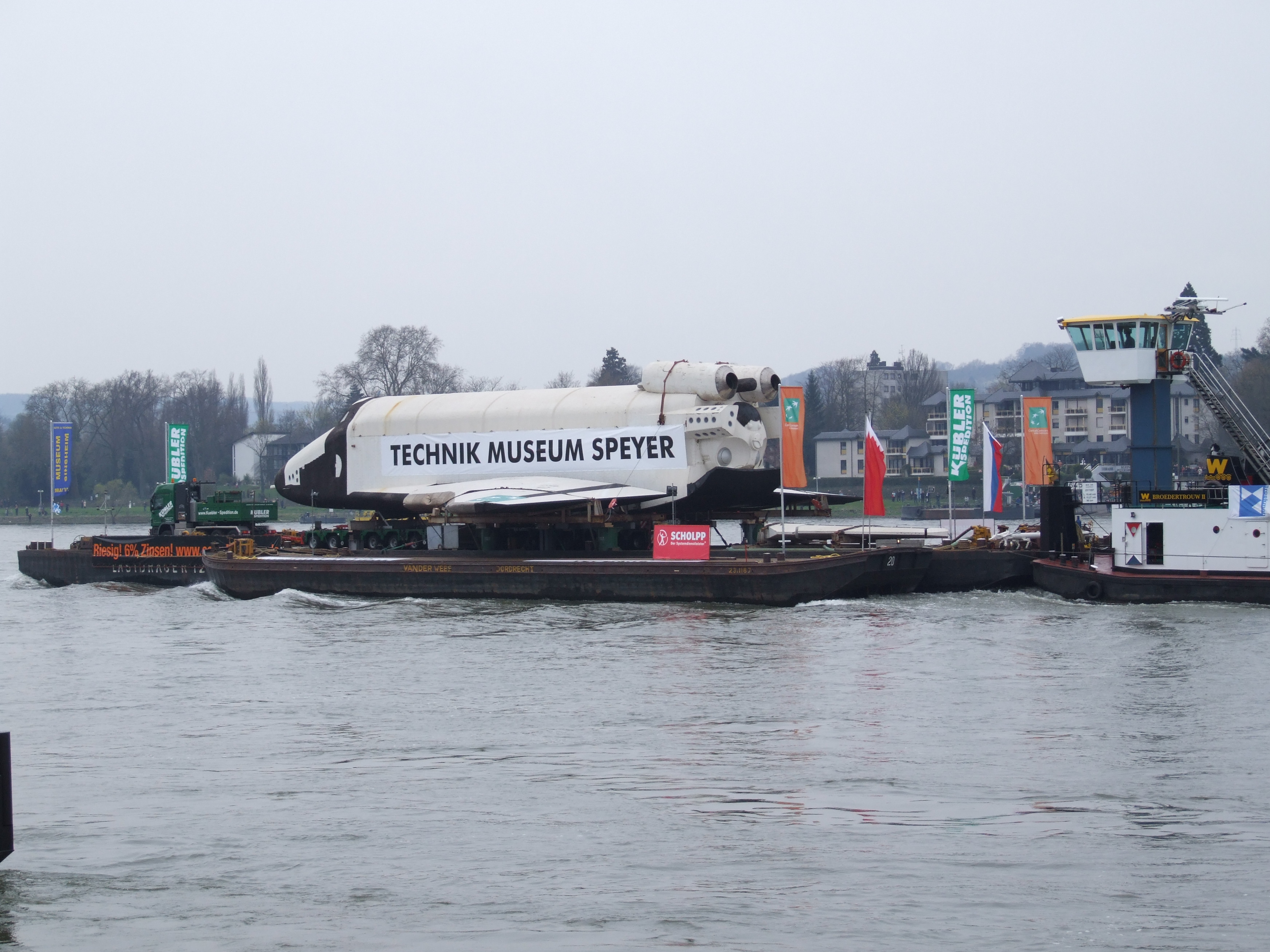 The Buran on the 9th of April 2008 on the Rhine (Königswinter/Bonn-Mehlem) on its way to Speyer/Germany